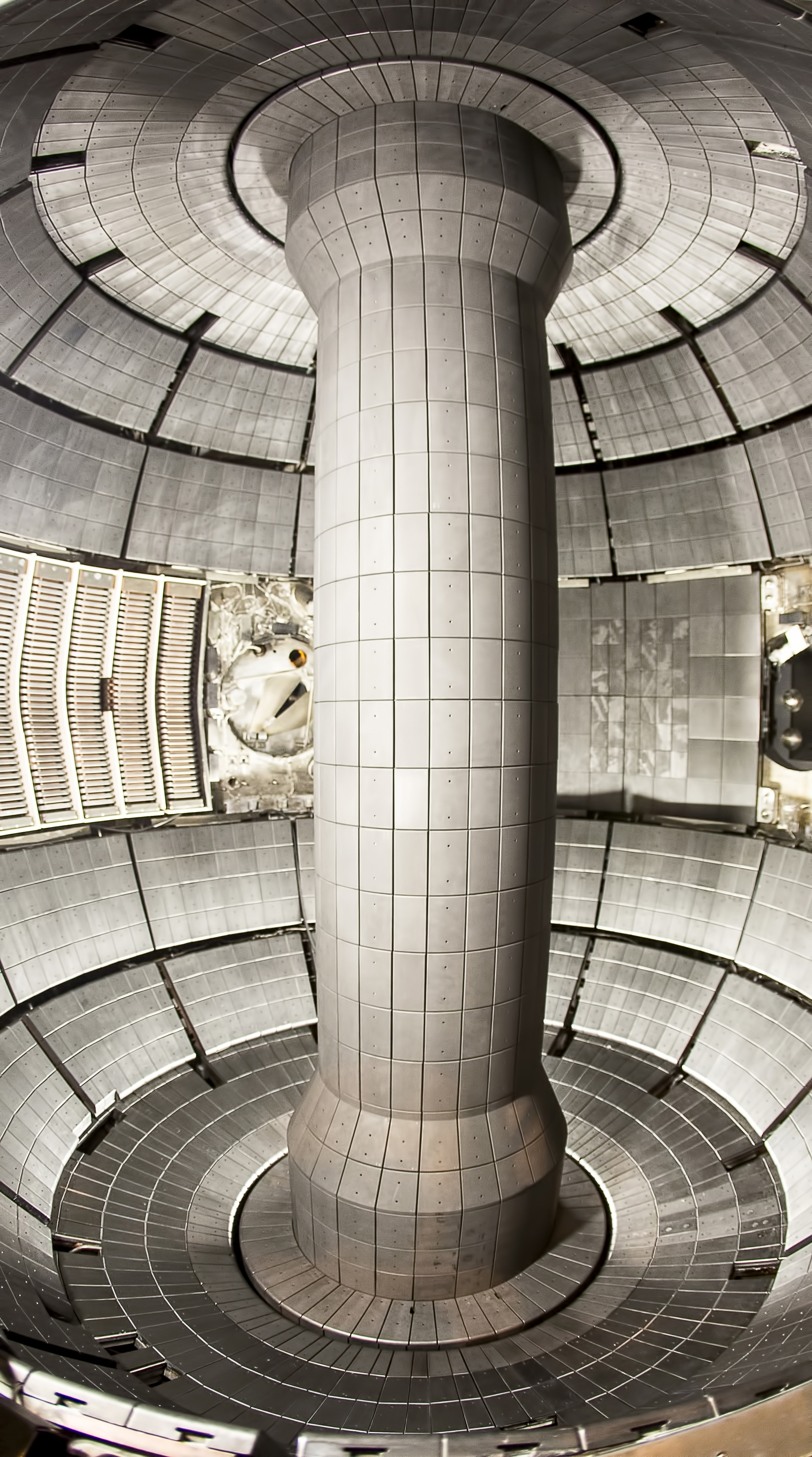 UPGRADED CENTER STACK INSIDE THE NATIONAL SPHERICAL TORUS EXPERIMENT (NSTX) AT PRINCETON PLASMA PHYSICS LABORATORY. The new center stack doubles the strength of the magnetic field and the current that flows inside the plasma. For more information or additional images, please contact 202-586-5251.